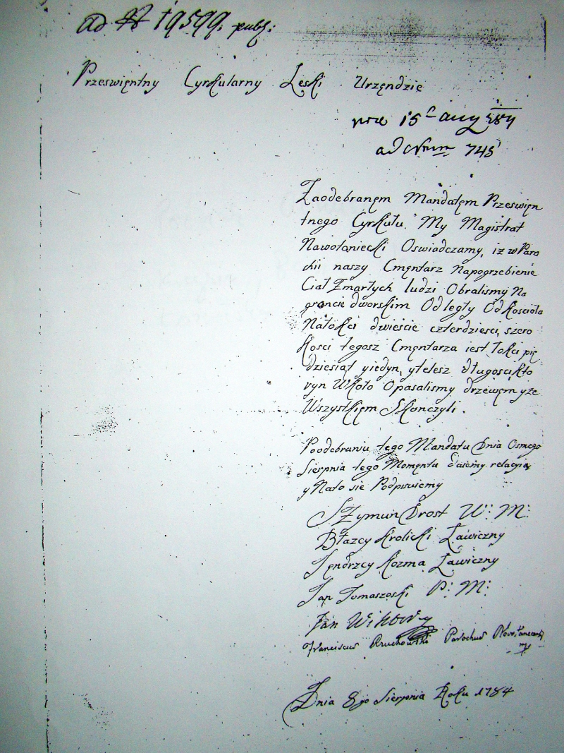 This document 1784, includes a description of the cemetery ground as surveyed by the Nowotaniec village. The archival document may be used to establish the existence and location of the cemetery. Pismo magistratu Nowotańca 1784, do curkułu leskiego w sprawie ukończenia budowy nowego cmentarza.